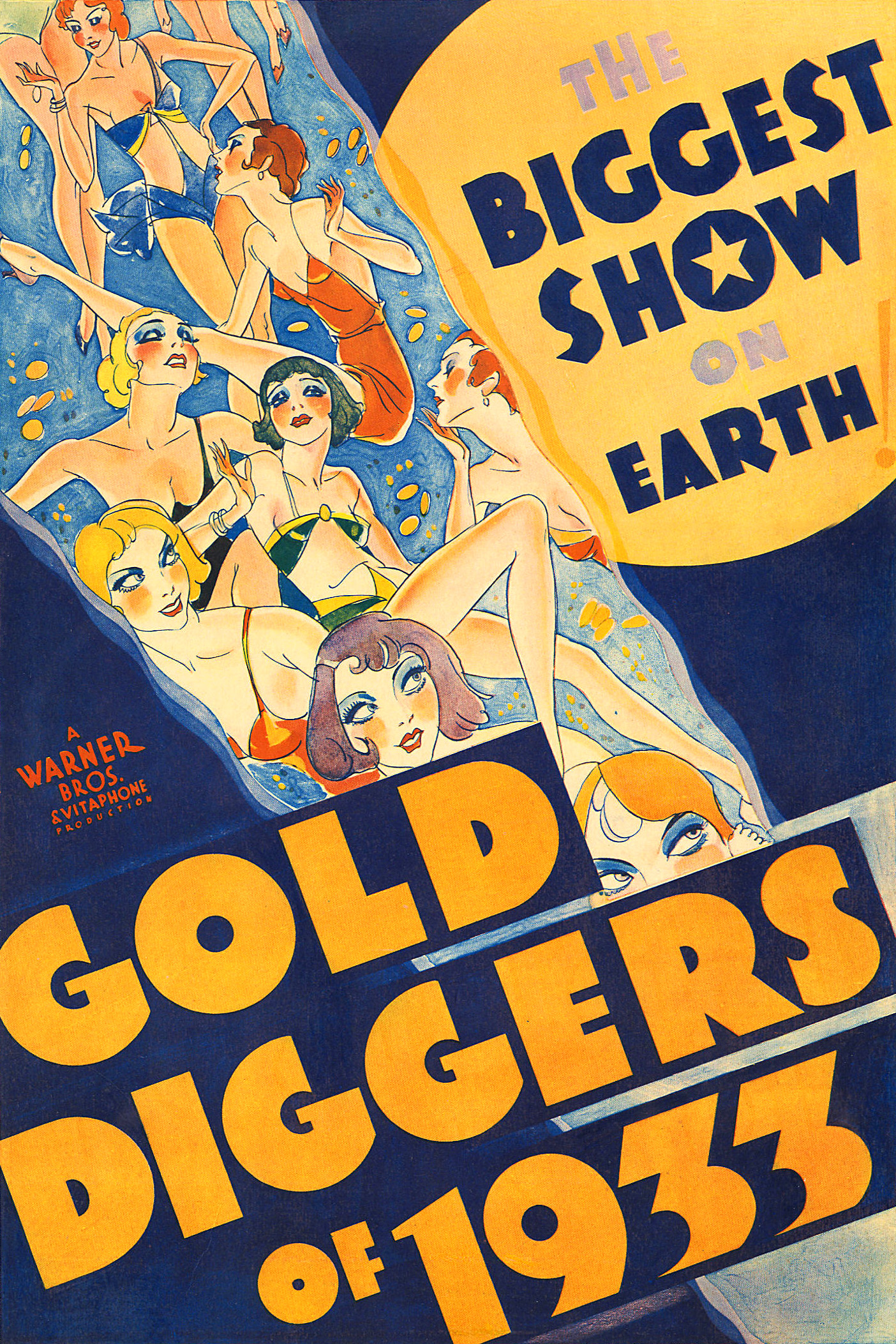 Theatrical release poster of the American film Gold Diggers of 1933, released that year.